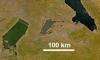 Lake Mweru Wantipa (Mweru Marshes) in northern Zambia photographed from space. Mweru Wantipa is a shallow muddy lake shown in the centre between the greenish Lake Mweru and the dark blue Lake Tanganyika.